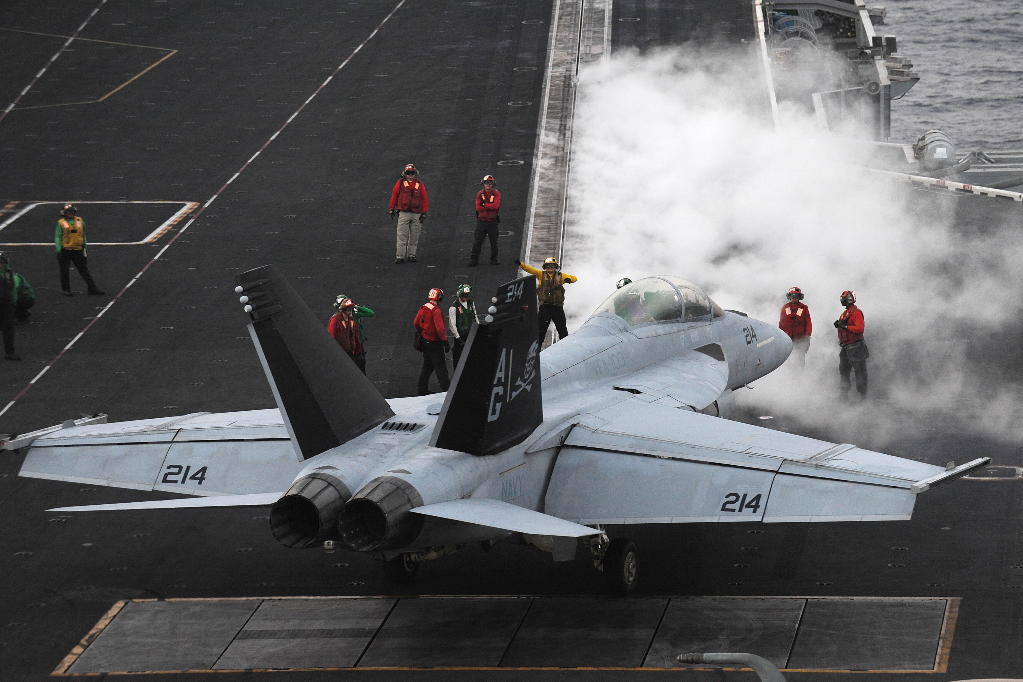 RED SEA (March 18, 2013) A Sailor guides an F/A-18F Super Hornet assigned to the Jolly Rogers of Strike Fighter Squadron (VFA) 103 on to a catapult aboard the aircraft carrier USS Dwight D. Eisenhower (CVN 69). Dwight D. Dwight D. Eisenhower is deployed to the U.S. 5th Fleet area of responsibility promoting maritime security operations, theater security cooperation efforts and support missions as part of Operation Enduring Freedom. (U.S. Navy photo by Mass Communication Specialist 2nd Class Ryan D. McLearnon/Released) 130318-N-GC639-185 Join the conversation navylive.dodlive.mil